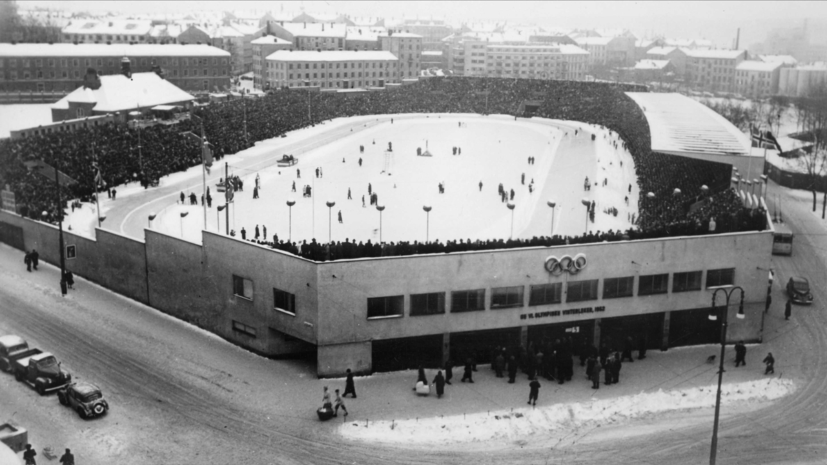 Bislett Stadium during the 1952 Winter Olympics.